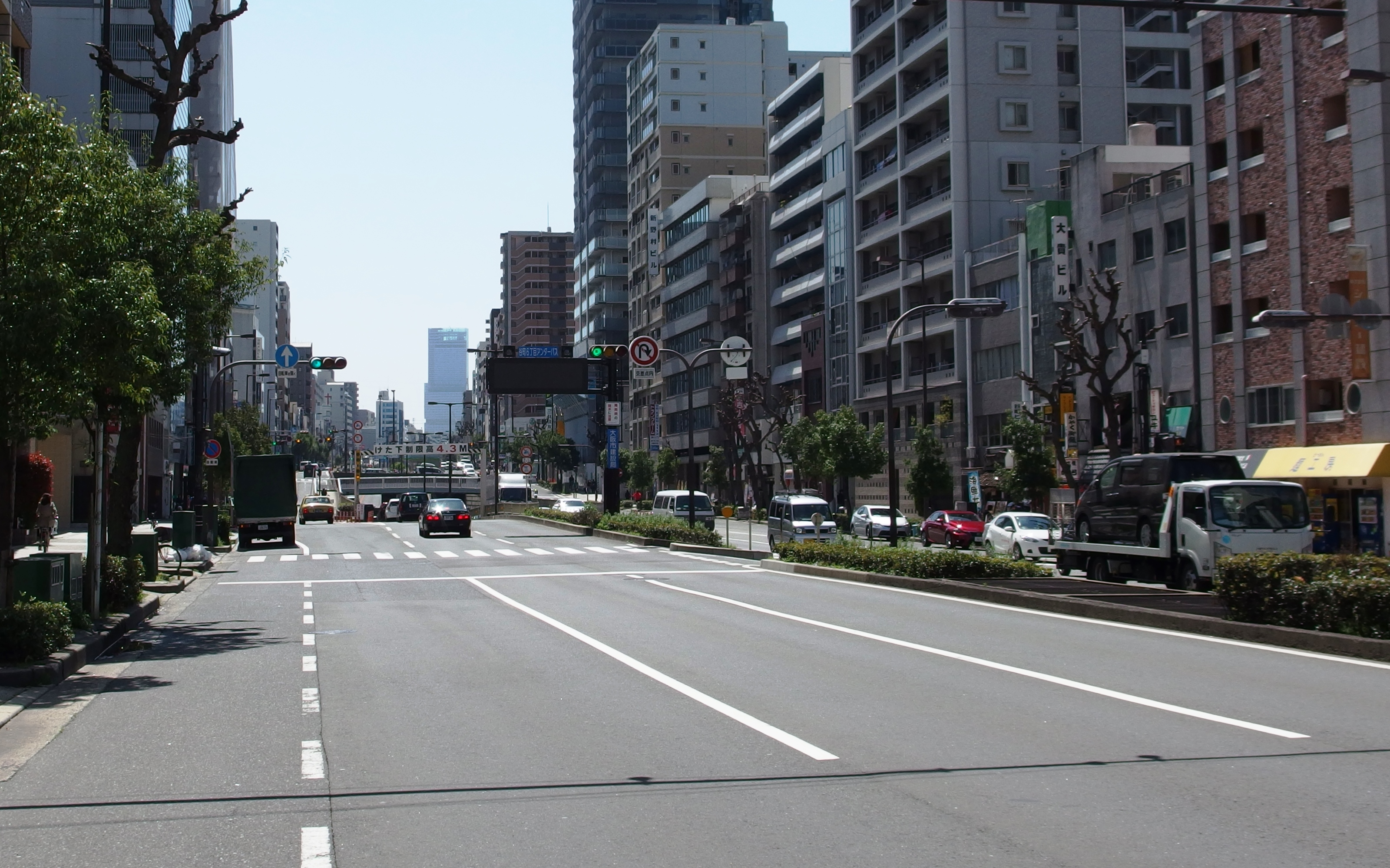 Tanimachi-suji street in Osaka, Osaka Prefecture, Japan